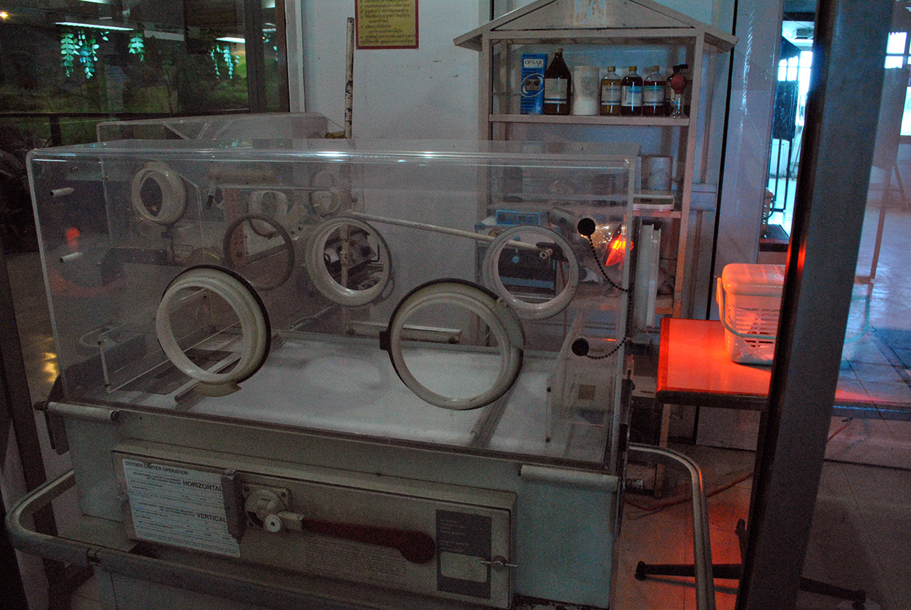 Nursery Room in Pata Zoo